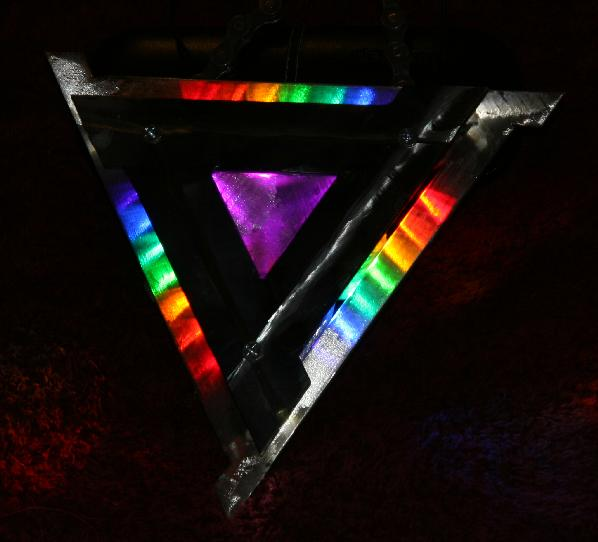 Kinetic artwork created with steel and LEDs